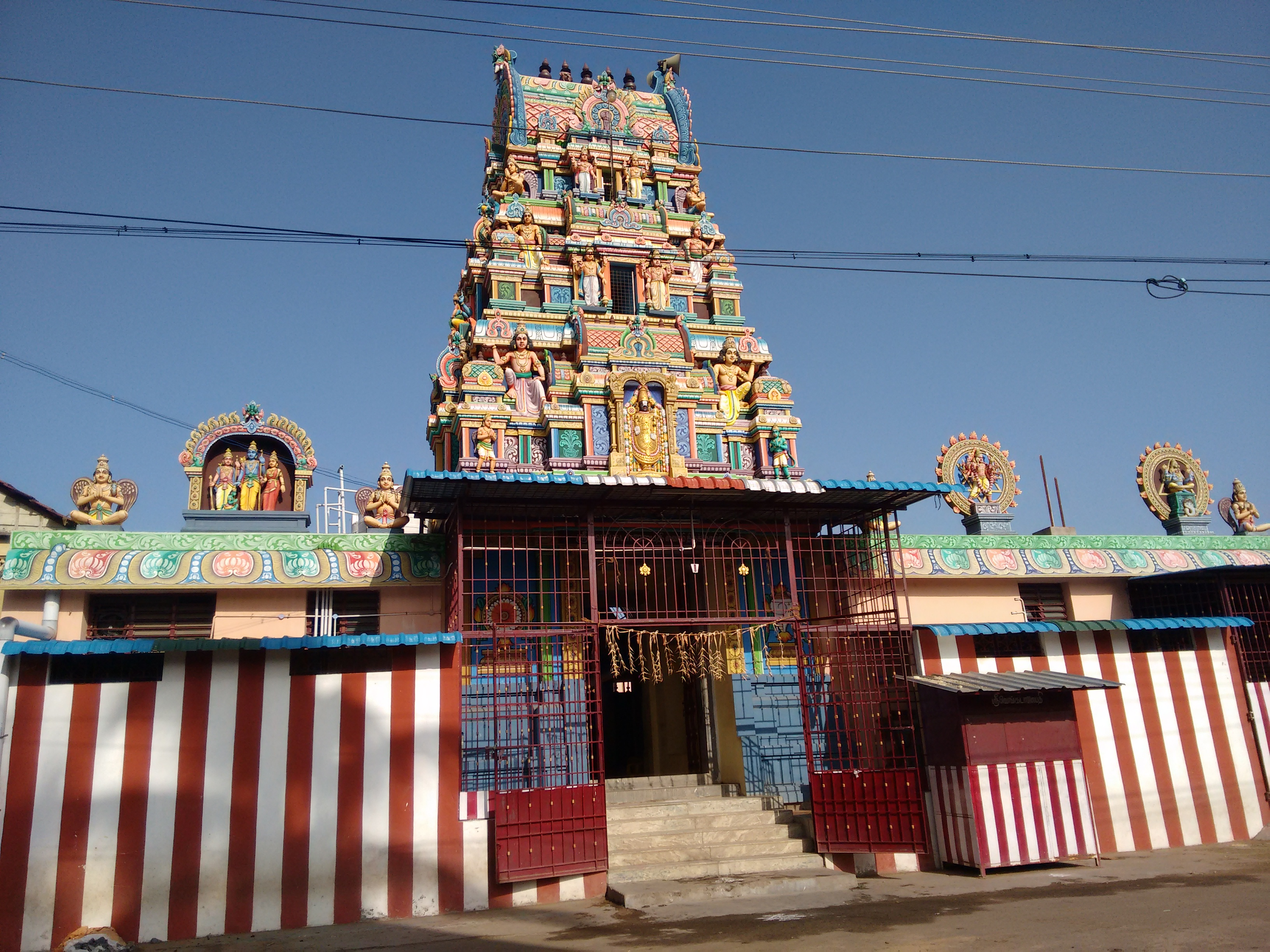 Kumbakonam venkatachalapathy temple கும்பகோணம் வெங்கடாஜலபதிகோயில்